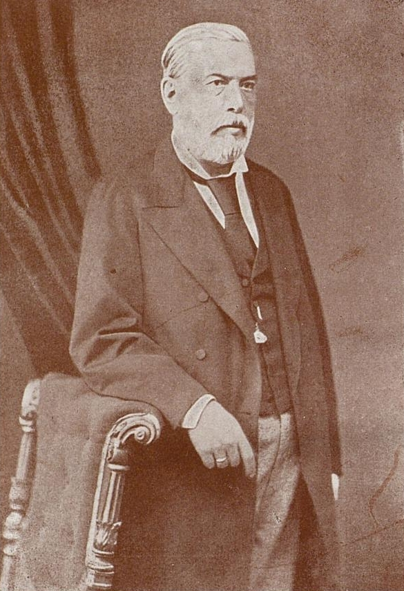 Pavel Annenkov